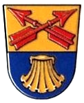 Coat of arms of Nittingen in Oettingen in Bayern - Wappen von Nittingen in Oettingen in Bayern